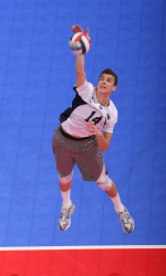 psu volleyball Depicted person: Matt Anderson – American volleyball player